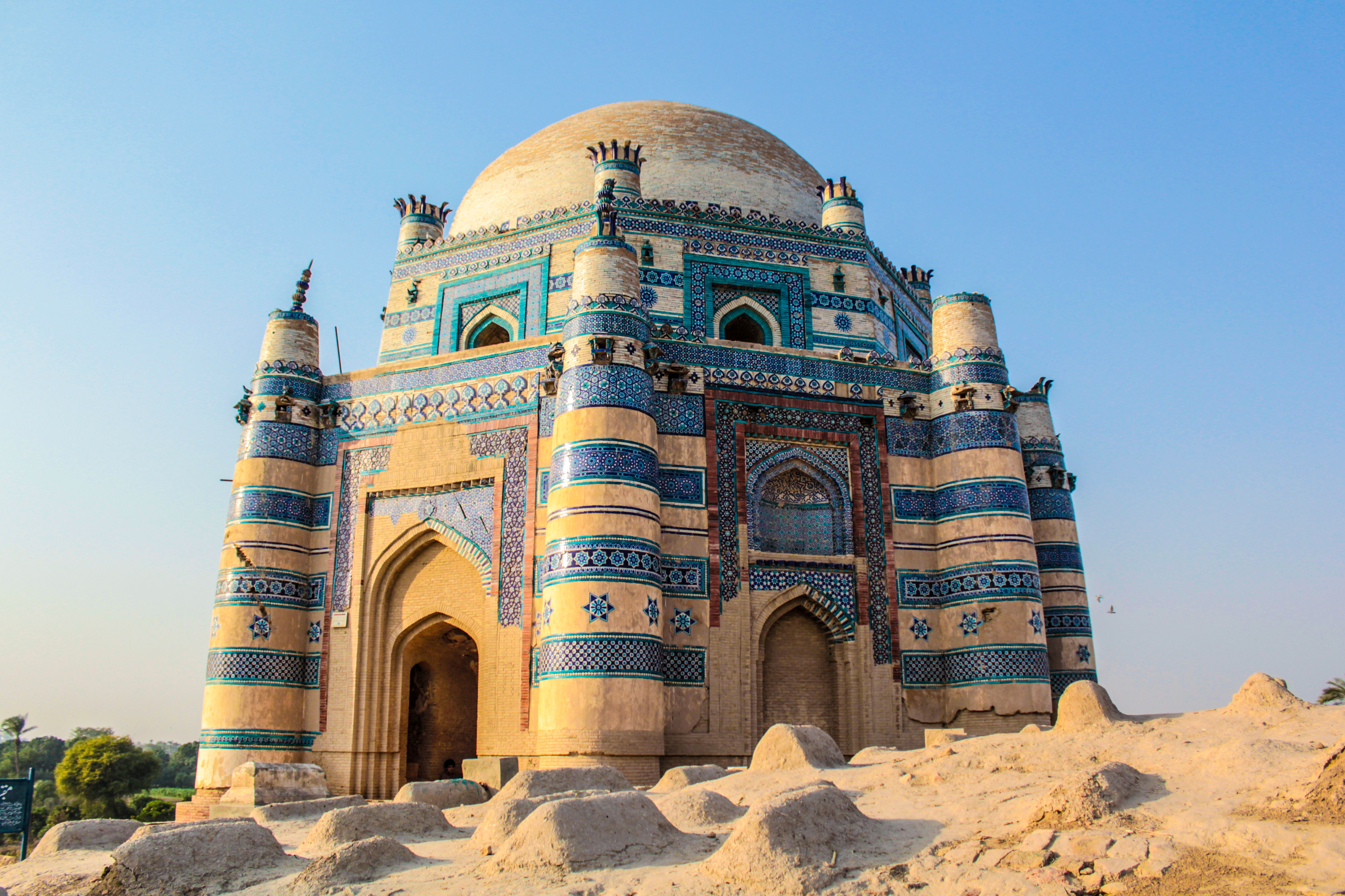 Tomb of Bibi Jawindi This is a photo of a monument in Pakistan identified as the PB-17